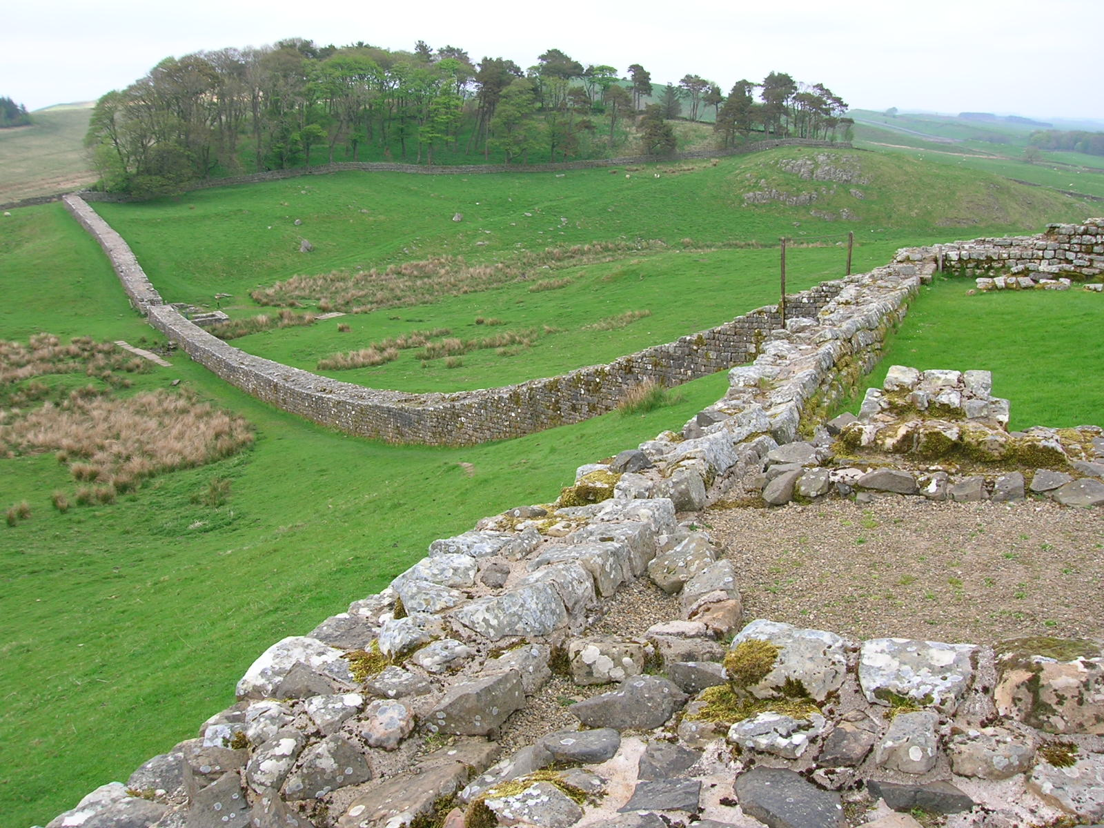 Housesteads Roman fort, looking east along the line of Hadrian's Wall